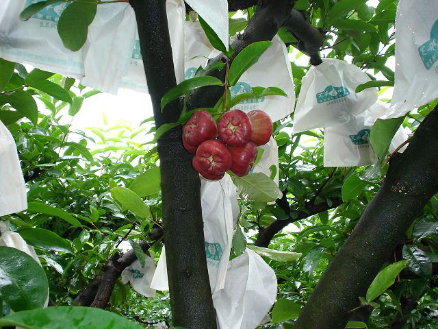 Wax apples on the tree. Photo by Yu Jen, Su.